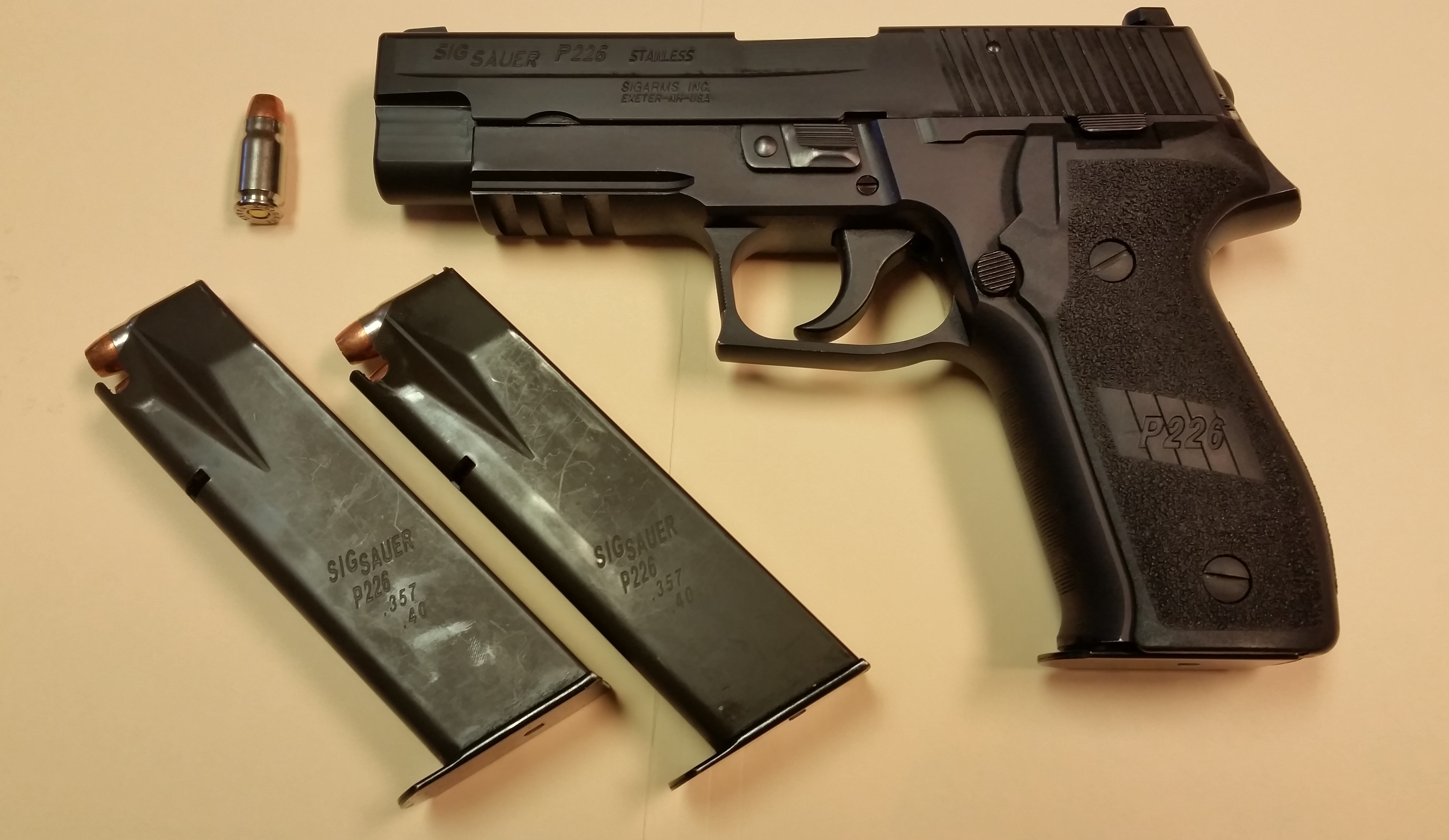 PNG Photo of Texas THP SIG P226 DAK